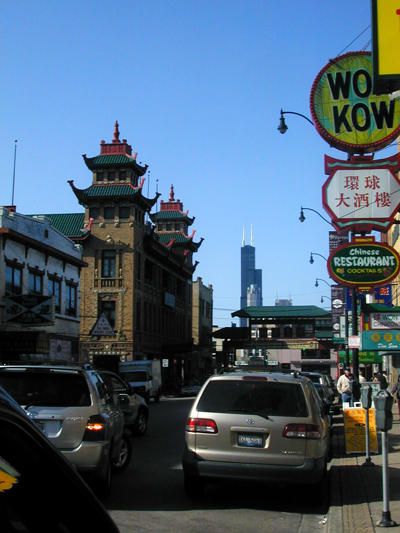 Chinatown, S Wentworth Ave, Chicago Ill, photo Arthur Sehn.